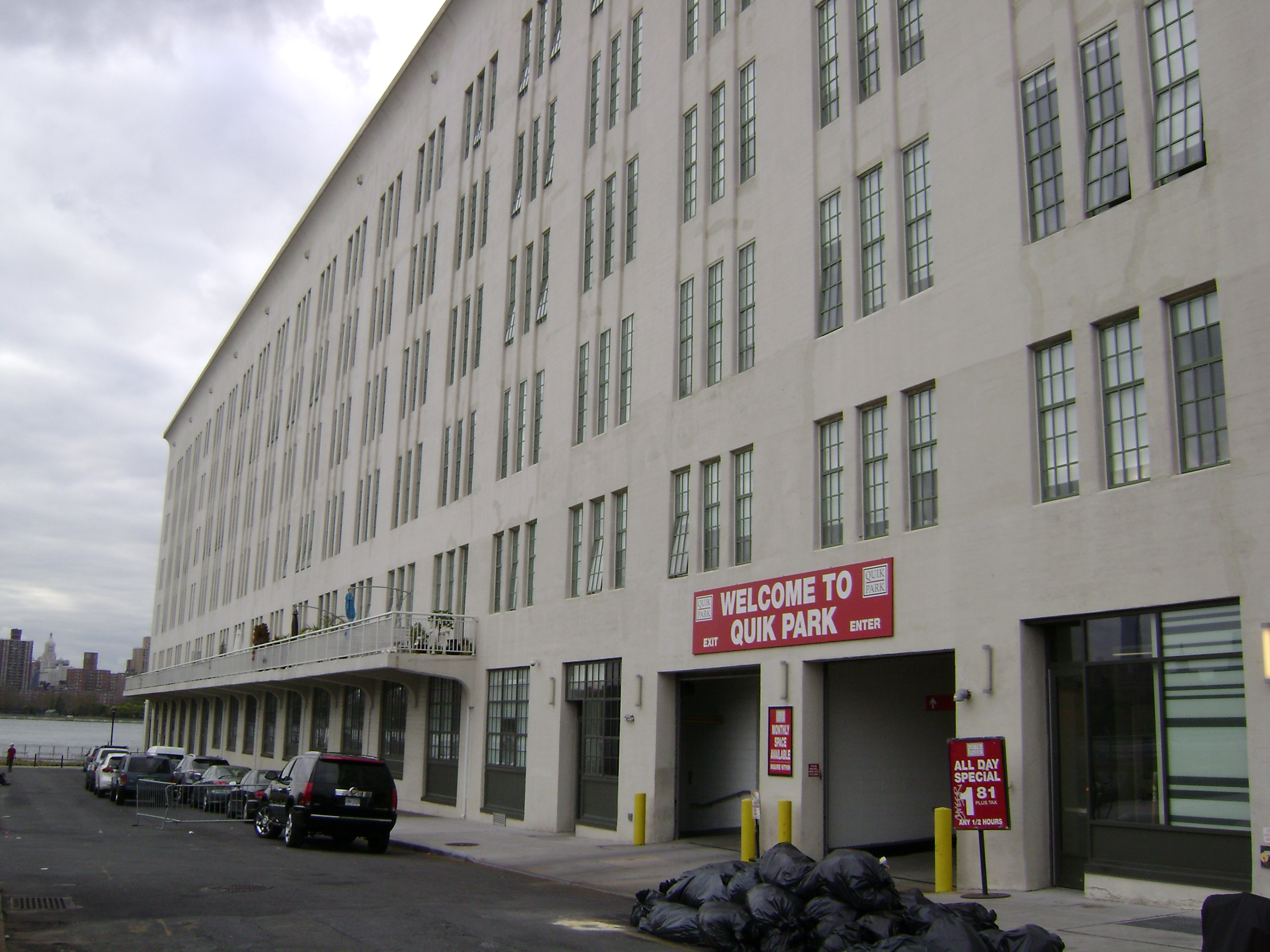 Austin, Nichols and Company Warehouse, 184 Kent Ave. Williamsburg